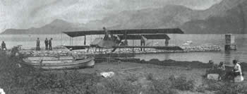 Floatplane of Mihailo Petrović who was the first man who died in Aerial warfare